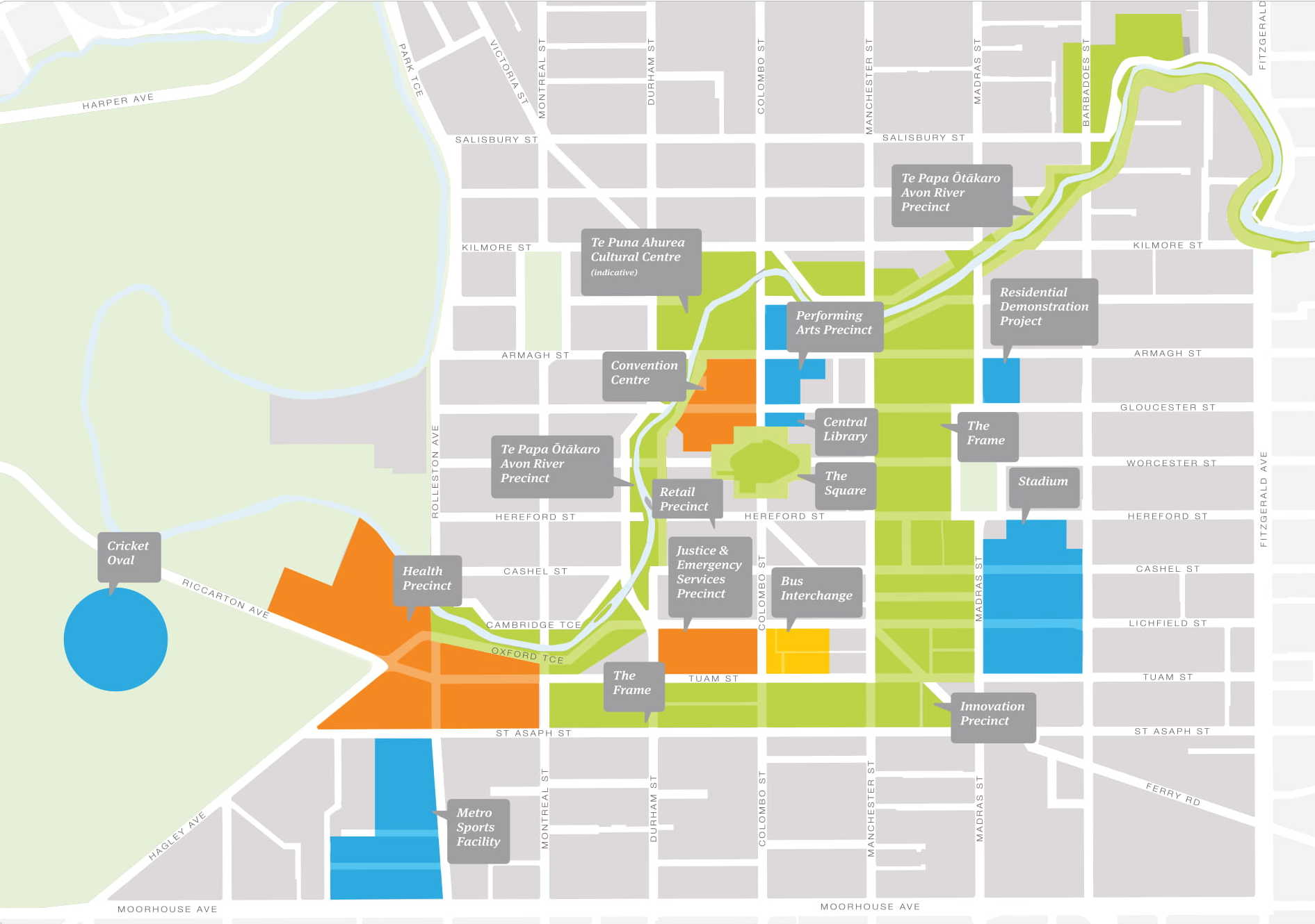 Christchurch Central Recovery Plan anchor project map July 2012